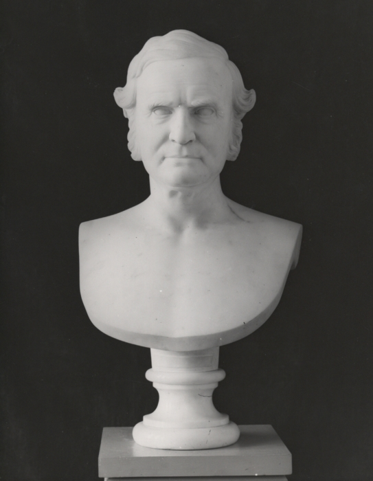 Marble bust of American clergyman Chauncey Allen Goodrich by the American artist Chauncey Bradley Ives. Yale University Art Gallery, gift of Dr. W. H. Goodrich, B.A. 1843. Courtesy of Yale University, New Haven, Conn.